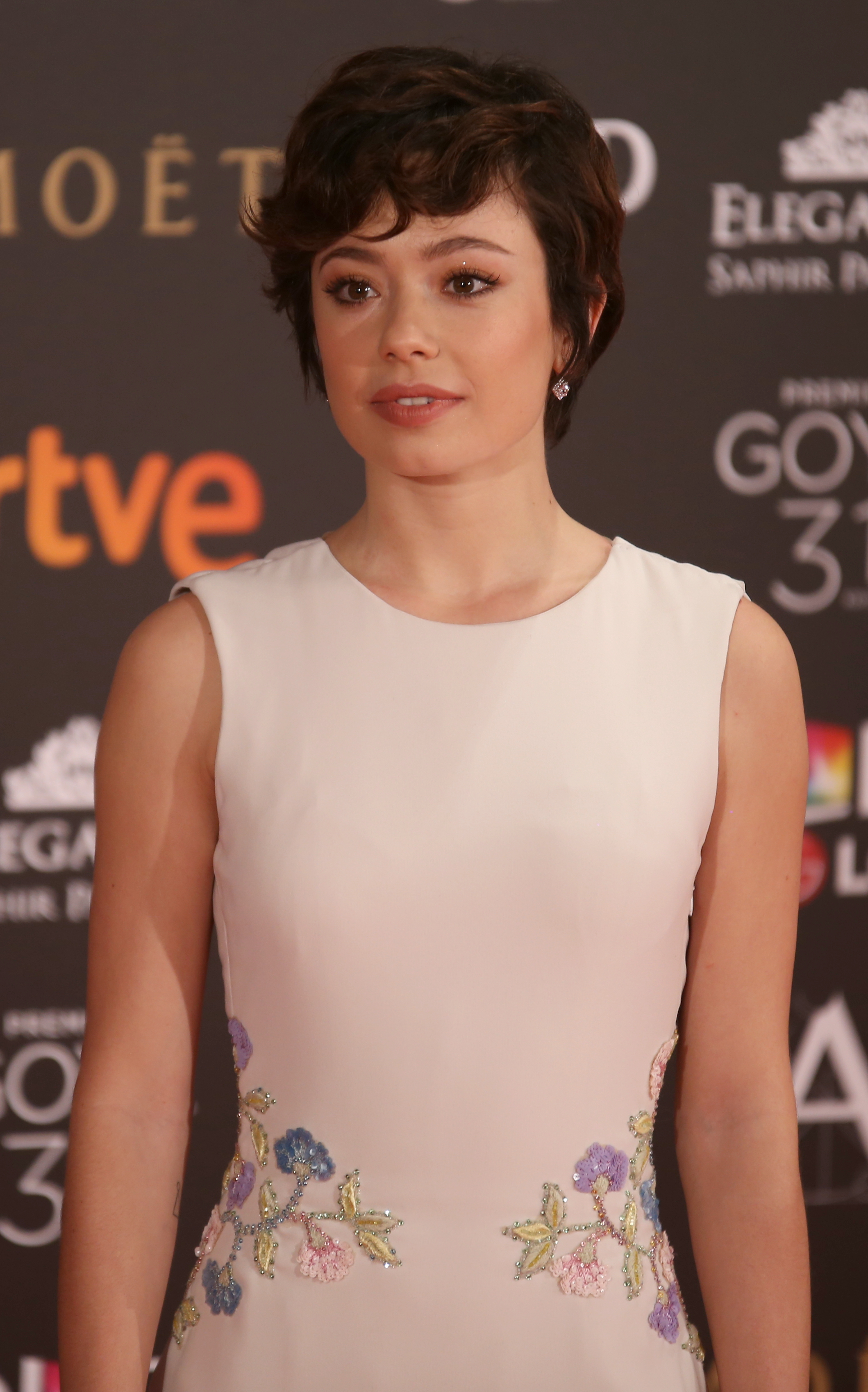 Anna Castillo at Premios Goya 2017